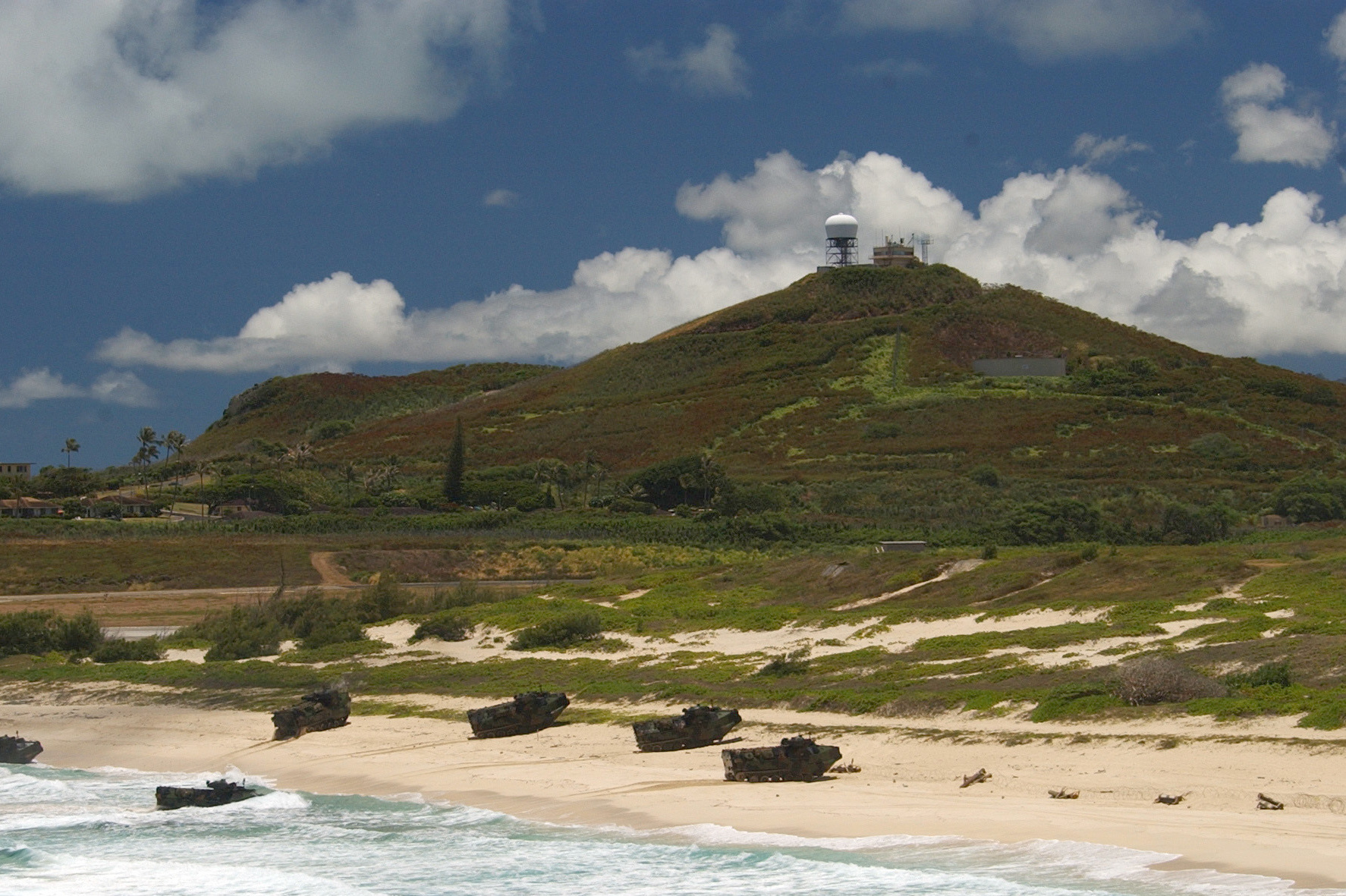 "Marine Corps Base Hawaii (July 18, 2004) - U.S. Marines of the 3rd Battalion, 3rd Marine Regiment hit the beach near Mokapu in Amphibious Assault Vehicles (AAV) and attack opposition forces in support of exercise Rim of the Pacific (RIMPAC) 2004. RIMPAC is the largest international maritime exercise in the waters around the Hawaiian Islands. This year's exercise includes seven participating nations; Australia, Canada, Chile, Japan, South Korea, the United Kingdom and the United States. RIMPAC is intended to enhance the tactical proficiency of participating units in a wide array of combined operations at sea, while enhancing stability in the Pacific Rim region. U.S. Navy photo by Photographer's Mate 1st Class Jane West (RELEASED) For more information go to: /"